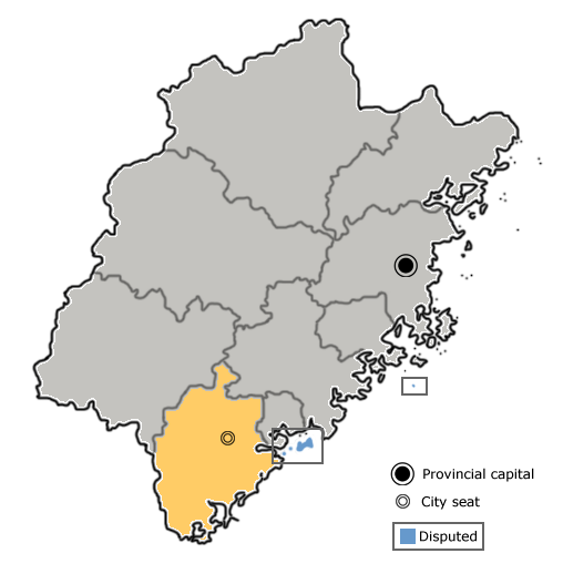 The prefecture-level city of Zhangzhou is highlighted on this map of Fujian province, People's Republic of China.